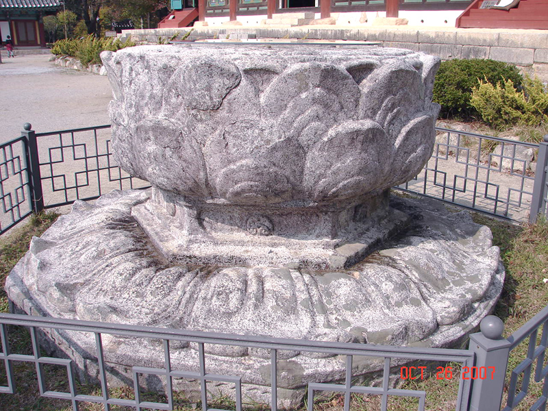 Geumsansa Seogyeondae (Stone lotus pedestal of Geumsansa Temple) a detailed lotus-shaped stone pedestal (base for a statue), dating to the 10th century cut from one solid piece of stone. Historians believe that the pedestal was constructed during the time between the Unified Silla Dynasty and the early Goryeo Dynasty. National Treasure #23